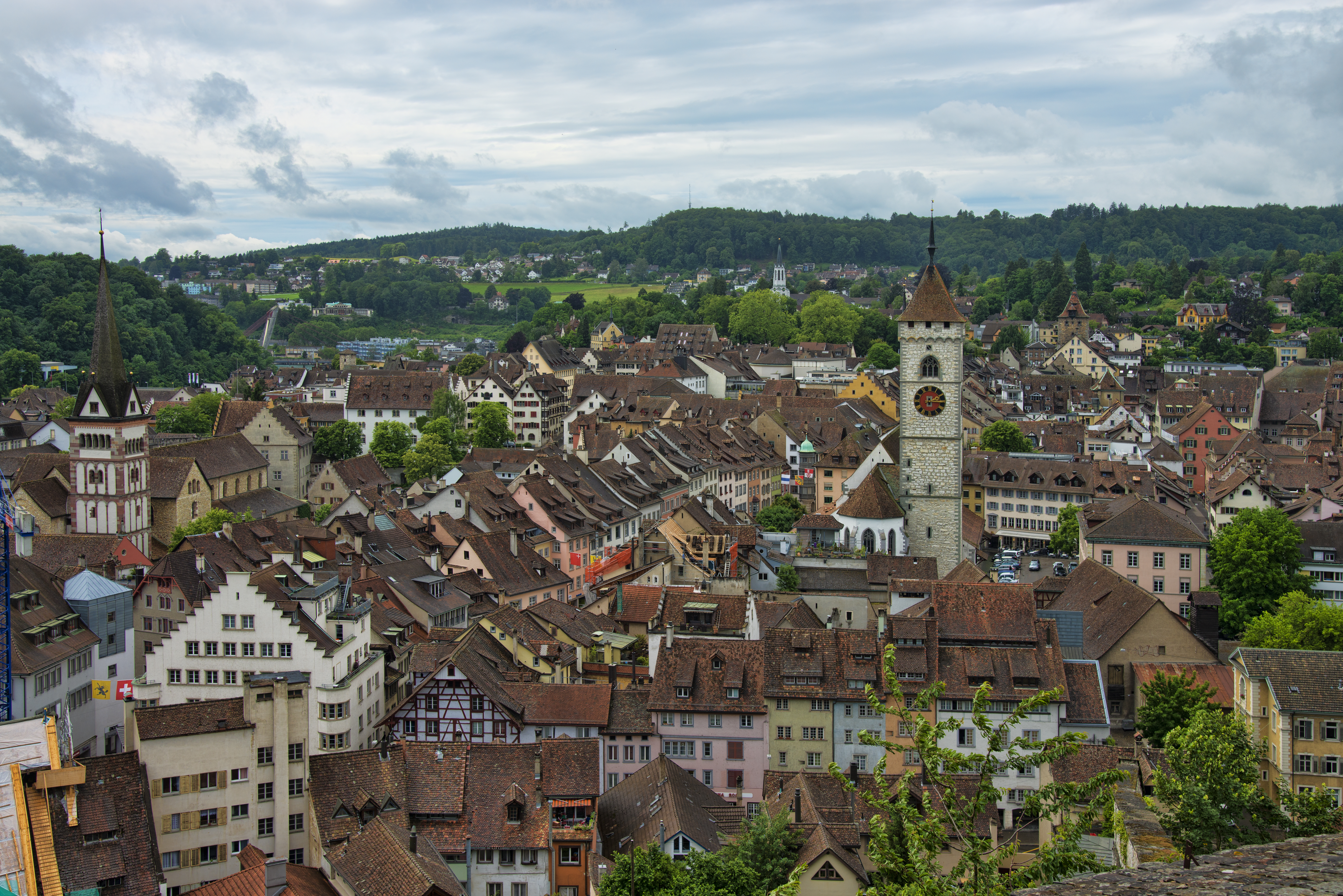 schaffhausen switzerland 2012 munot fortress